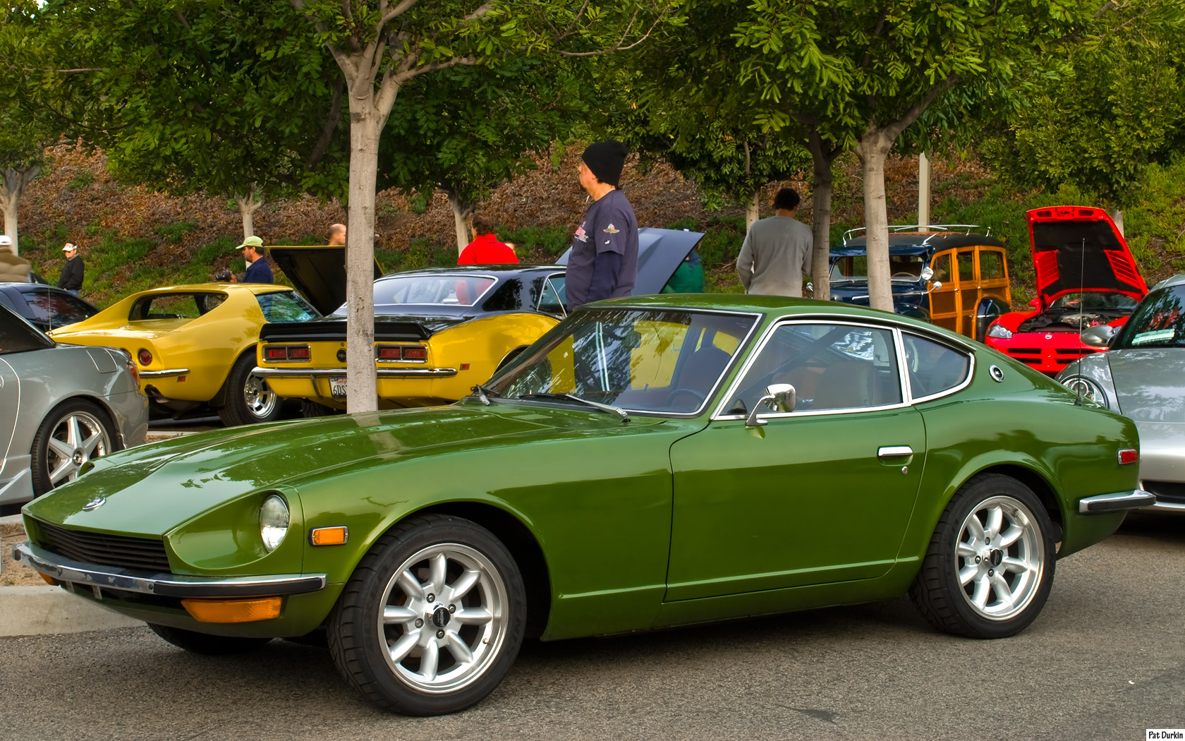 1971 Datsun 240-Z coupe - green - front left